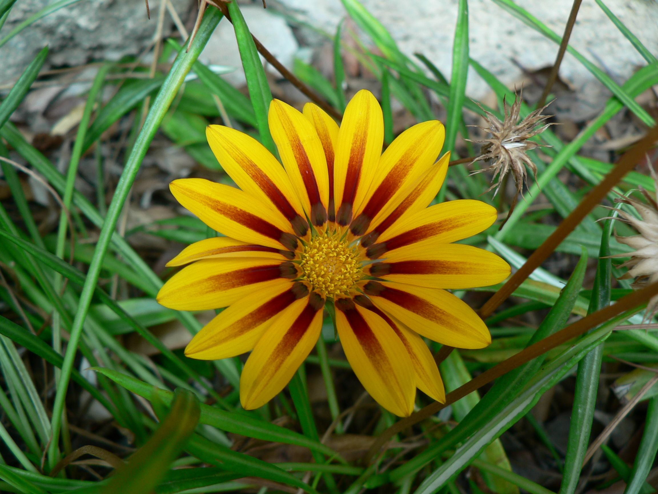 Botanical Garden Hanbury at Ventimiglia, Italy